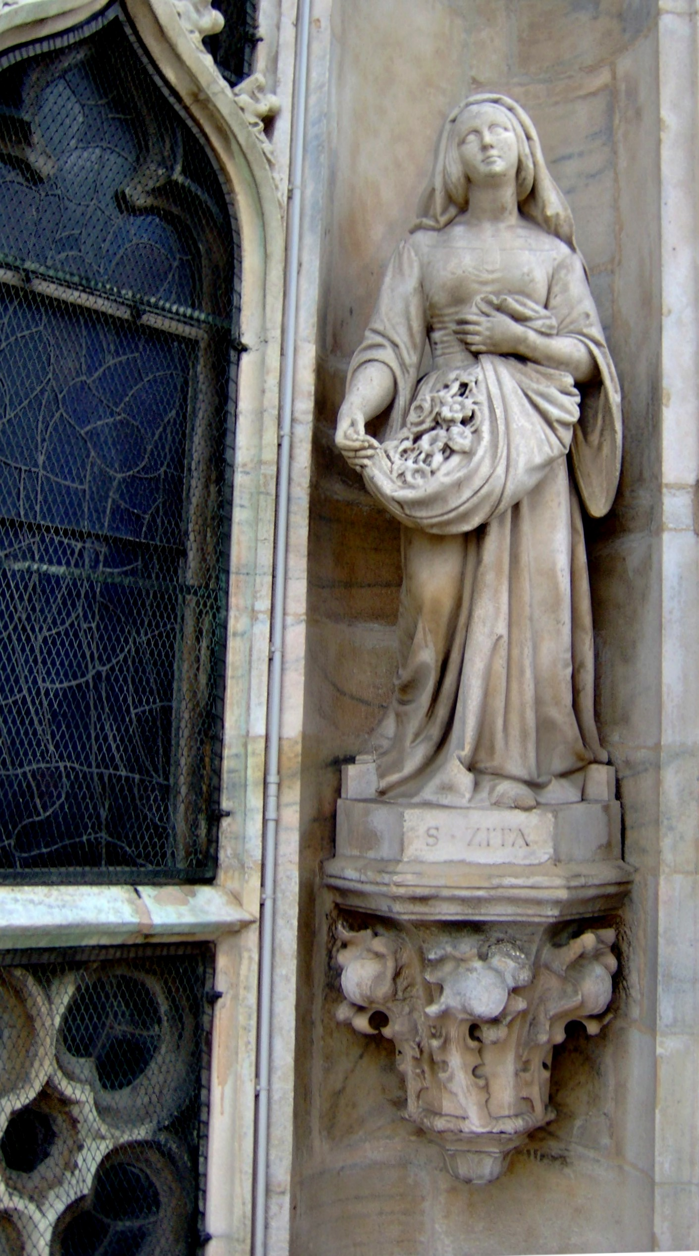 Statue of Saint Zita (Giovanni Pandiani, 1858) Cathedral in Milan,roof